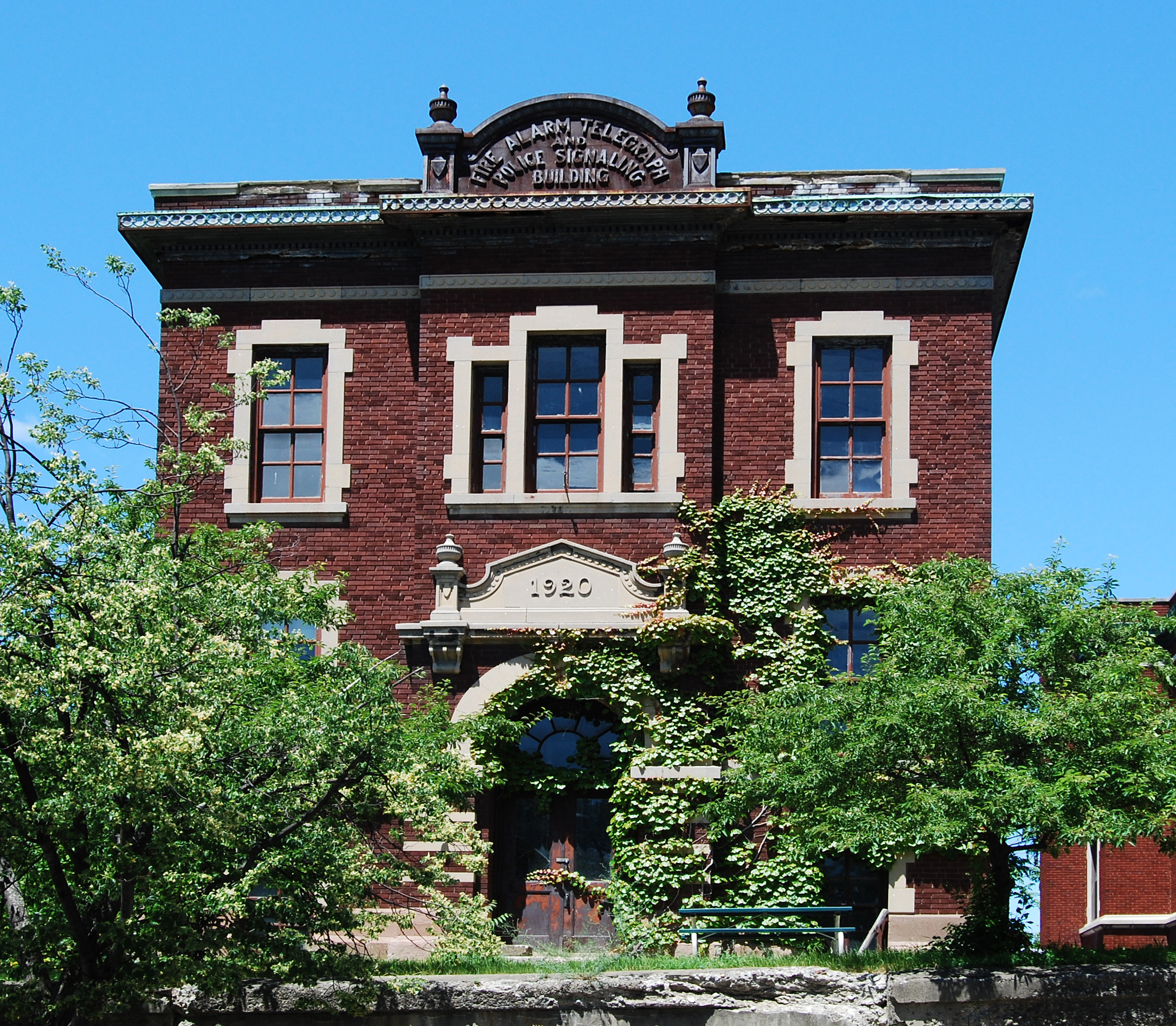 Fire Alarm, Telegraph and Police Signaling Building in Troy, New York, United States, which is on the National Register of Historic Places